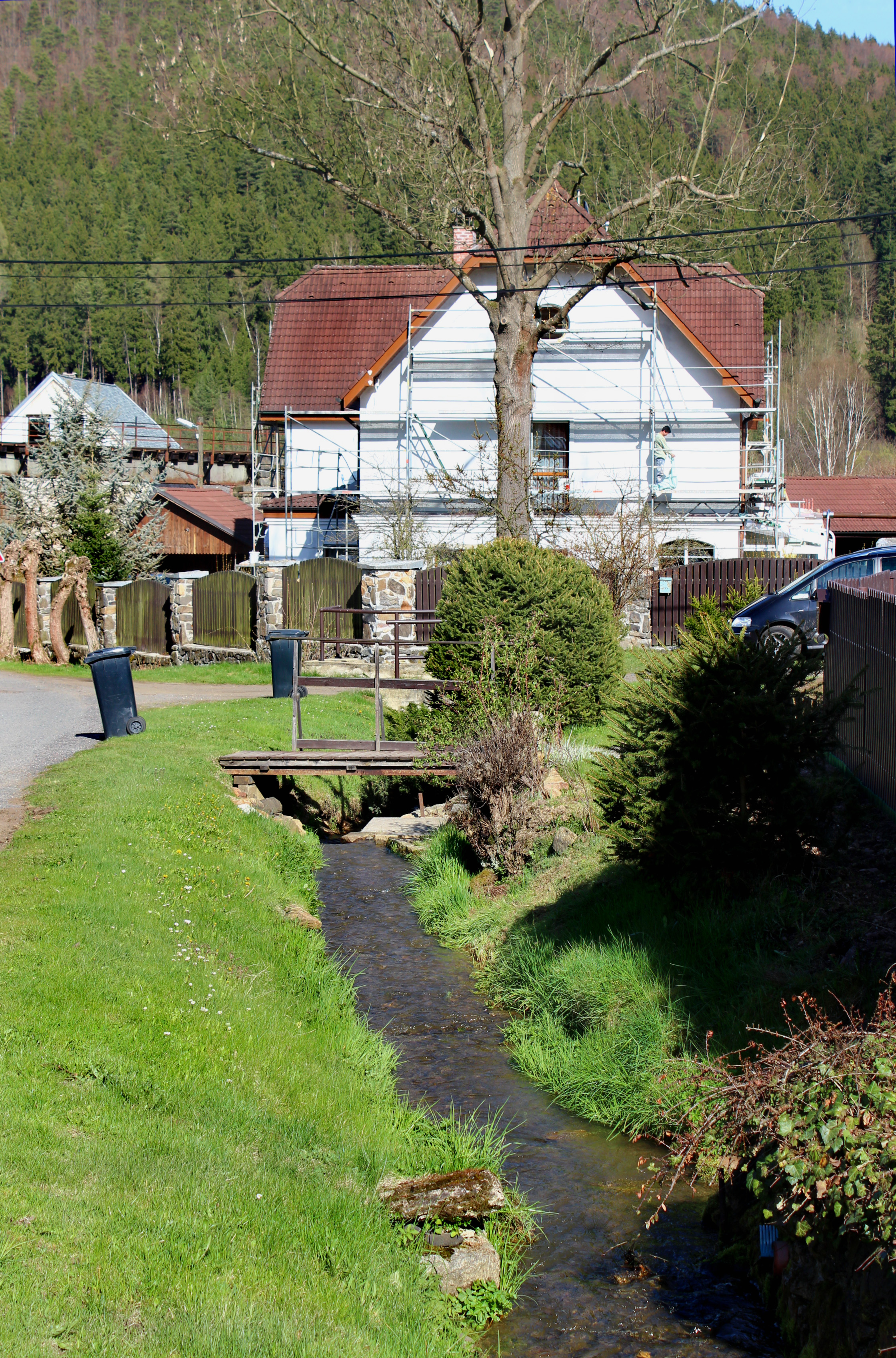 Havraní Creek in Krásný Jez, part of Bečova nad Teplou, Czech Republic